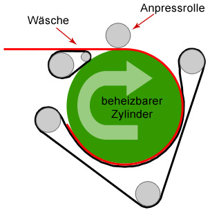 How a cylindre mangle for cloth works. Textile in red color.